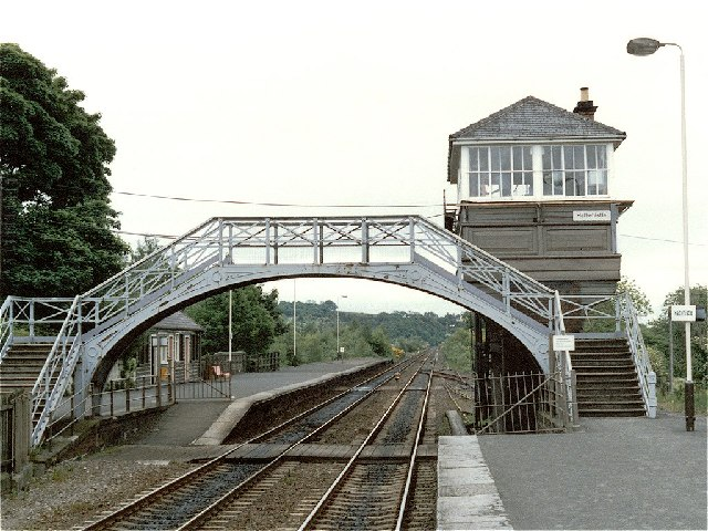 Haltwhistle railway station Original description: Haltwhistle Railway Station and Signal Box The shot was taken from the train